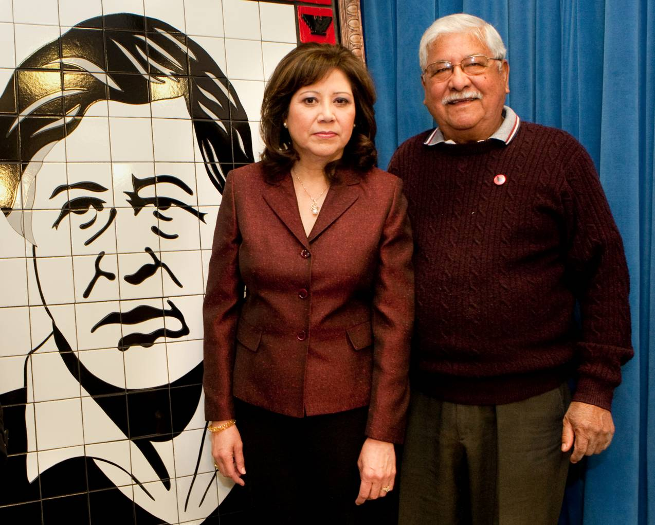 United States Secretary of Labor Hilda Solis and Richard Chavez pose for a photo following an observance of Cesar Chavez Day.